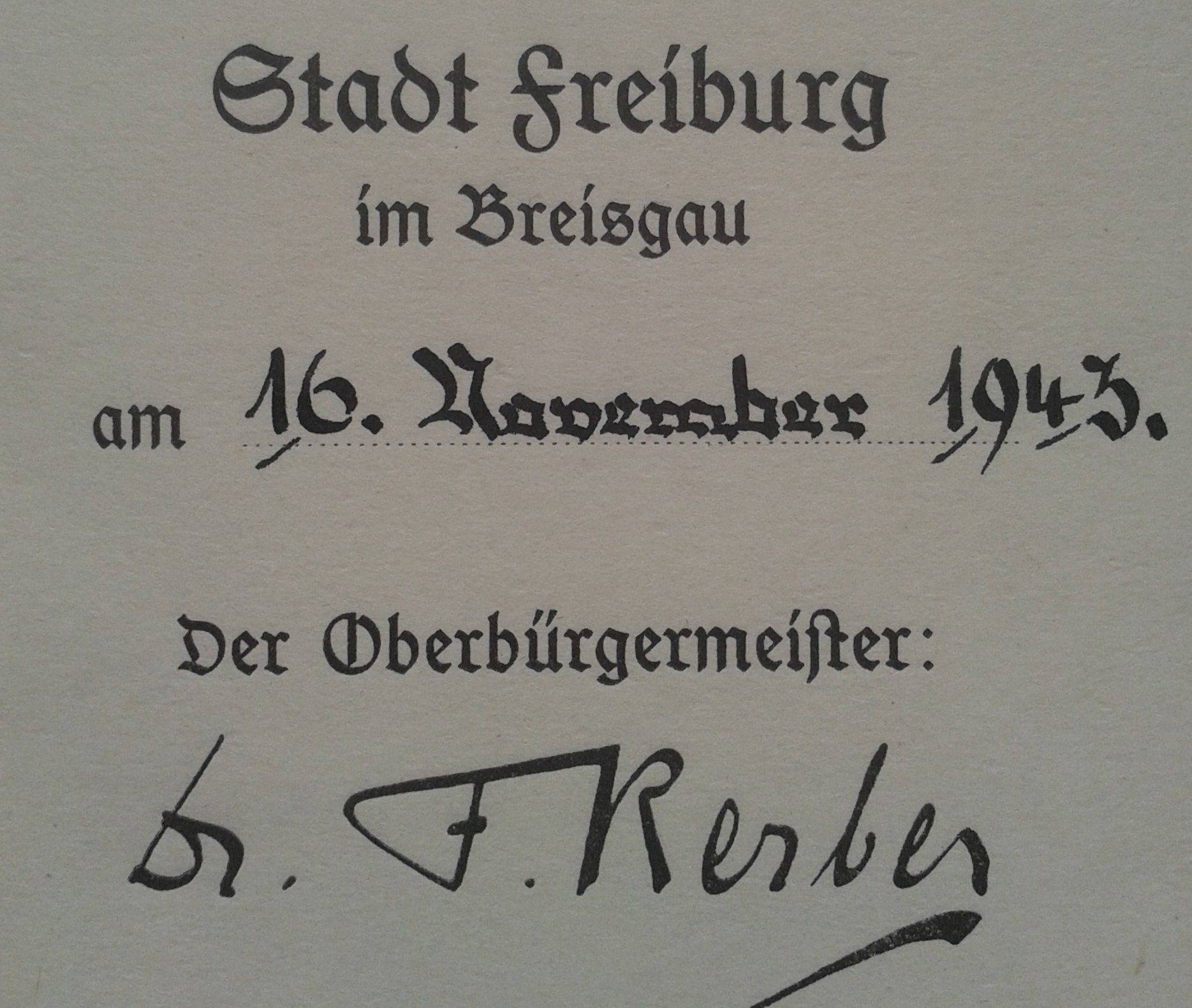 Signature of Franz Kerber, mayor of Freiburg im Breisgau, 1943, dedication for newly weds, frontpage of: A. Hitler: Mein Kampf.